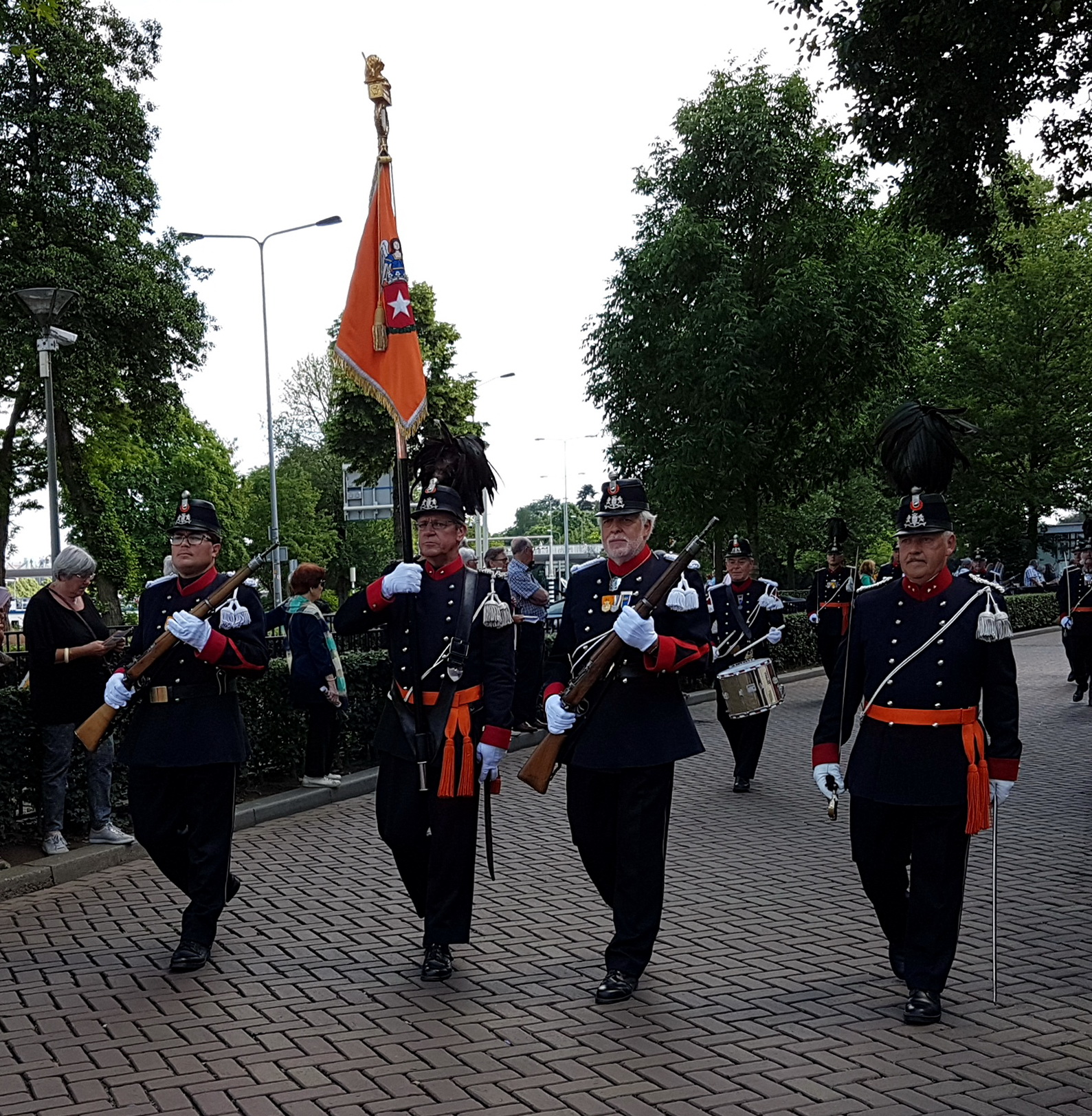 Members of a ceremonial civic guard in a historic religious procession during the 2018 Heiligdomsvaart ("Relics Pilgrimage") in Maastricht, Netherlands. The history of this seven-yearly catholic pilgrimage goes back to the Middle Ages. The first 'modern' version took place in 1874. On both Sundays of the 10-day festival, a procession is held in which the main relics and other devotional objects are exhibited. This photo was taken at Het Bat during the (second) procession on Sunday 3 June 2018. The civic guard is the Maestrichtsche Dienstdoende Stadsschutterij 1815.